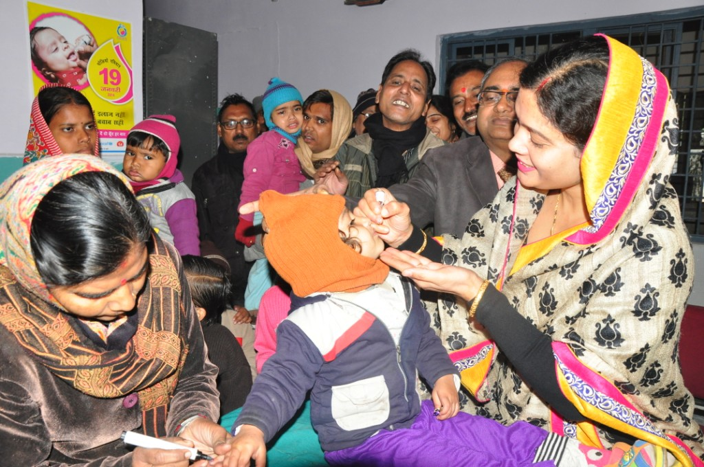 This file shows a kid being vaccinated with a polio drop.